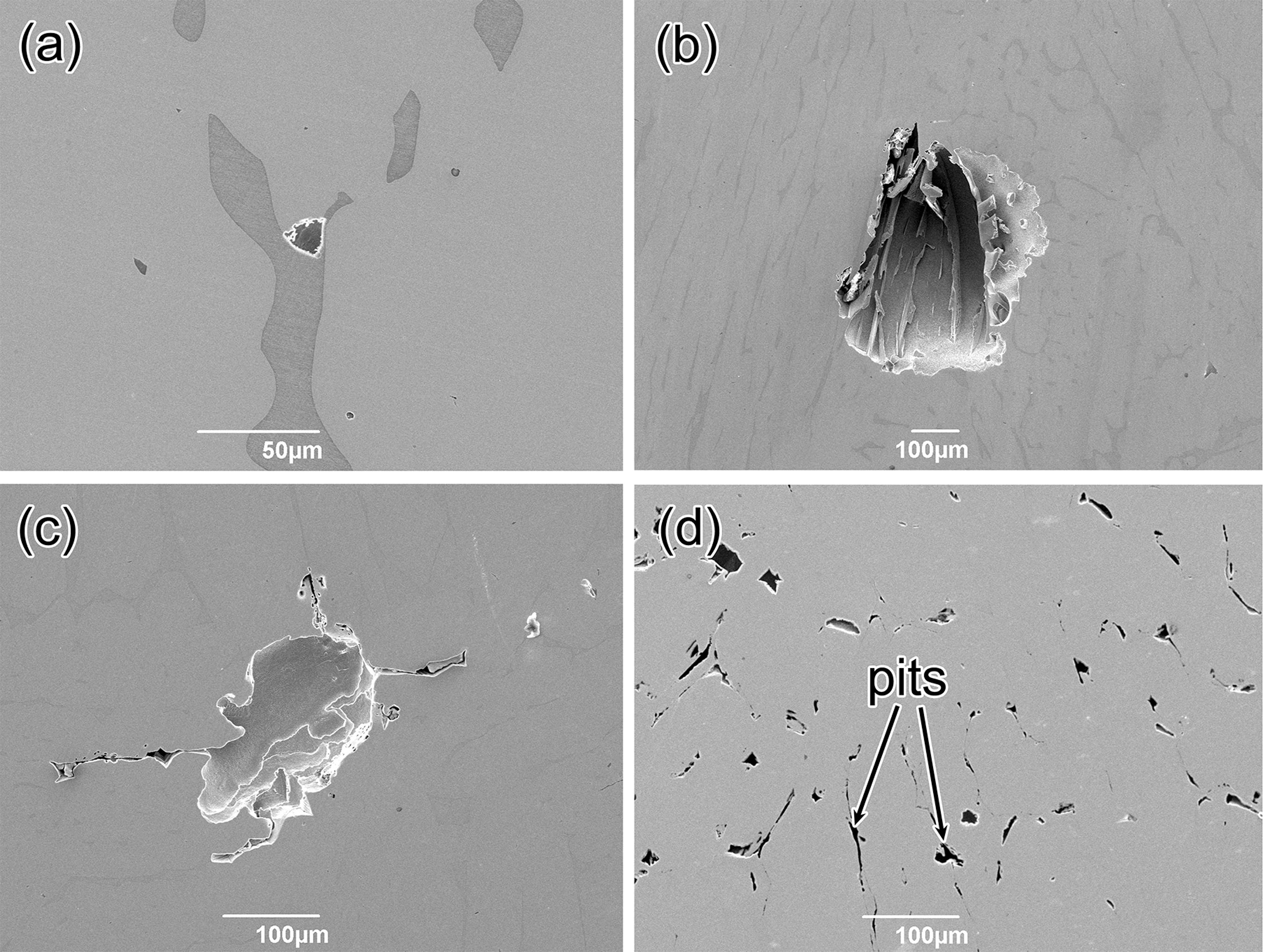 Micrographics of pits on duplex stainless steel Z3CN20.09M specimens after the electrochemical tests. Figure (a) means solid solution condition. Figures (b) (c) (d) means respectively the conditions aged at 350 °C, 450 °C, and 500 °C. The further detail can been found on the source.